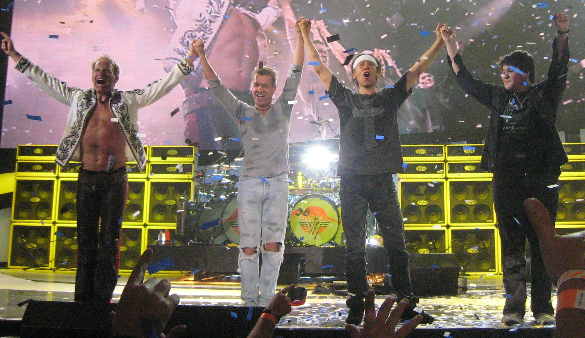 Van Halen performing in 2008 (cropped image)